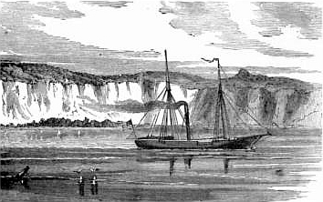 Ellis Cliffs, Adams County, Mississippi, as depicted in Harper's Pictorial History of the Civil War